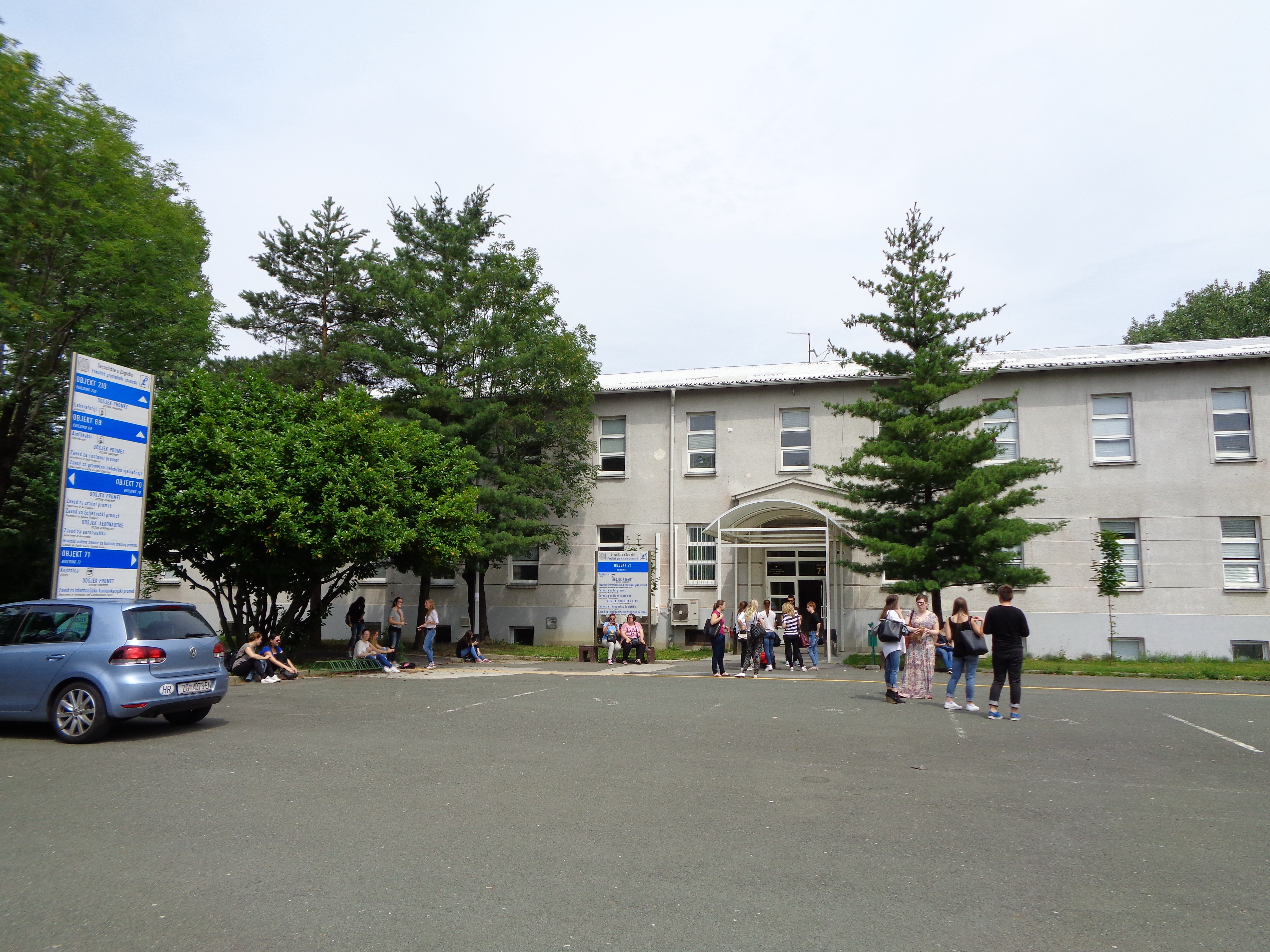 University of Zagreb - Faculty of Transport and Traffic Sciences in Zagreb-Borongaj (northern part of the building)